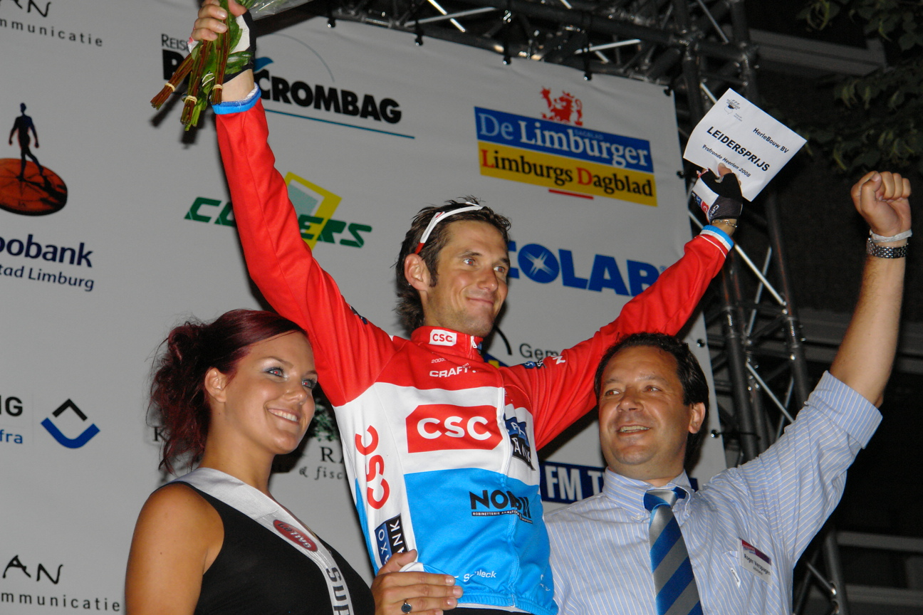 Fränk Schleck - Profronde Heerlen 2008